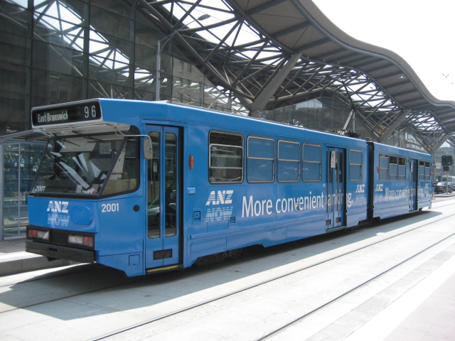 B1.2001 in Spencer Street.